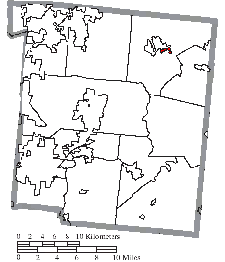 Map of the municipal and township boundaries of Warren County, Ohio, United States, as of the 2000 census, with the location of the village of Corwin highlighted. Township borders are shown only in unincorporated areas in order to differentiate incorporated and unincorporated areas more clearly.